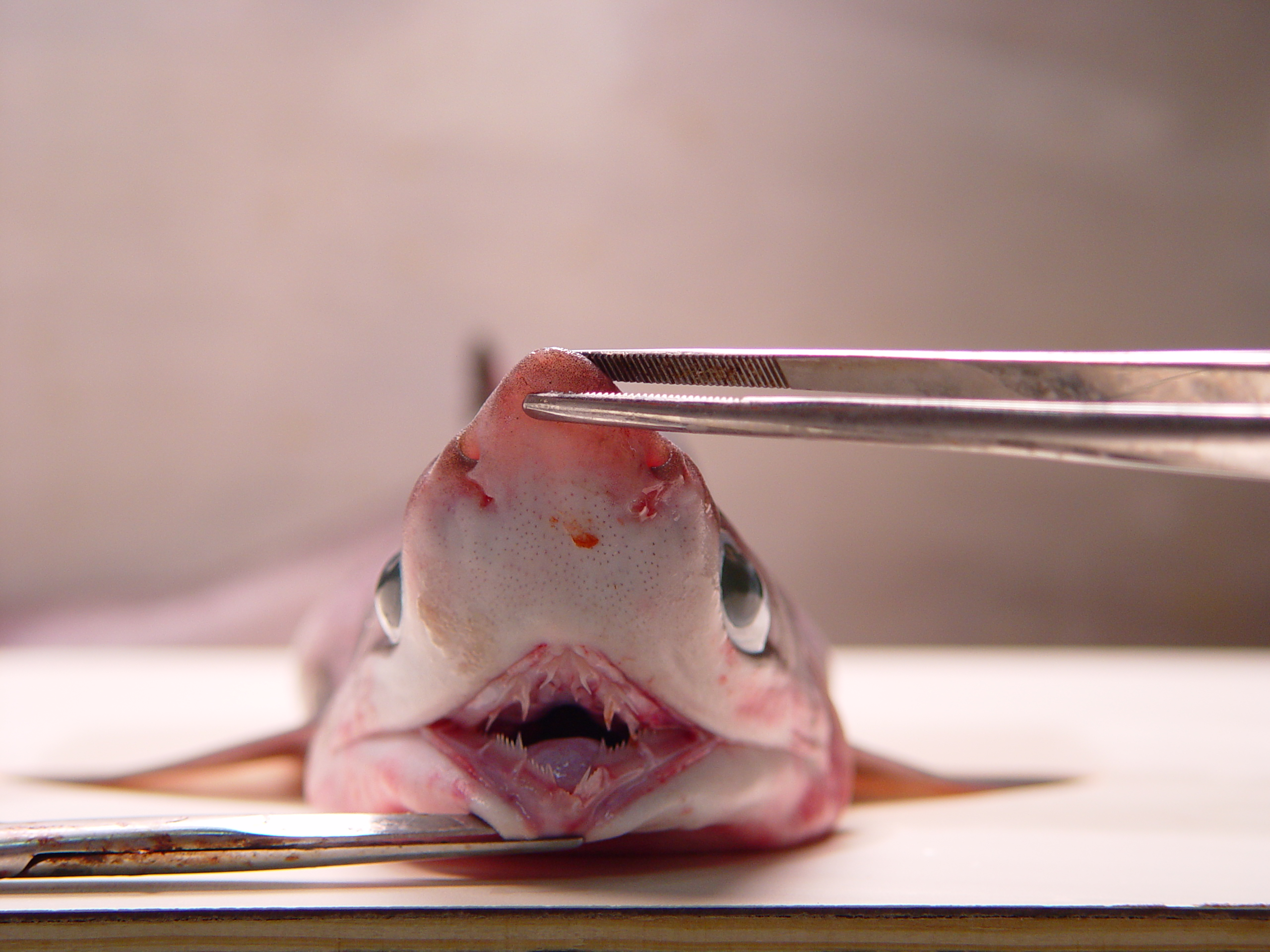 Teeth of sharpnose sevengill shark (Heptranchias perlo). Gulf of Mexico